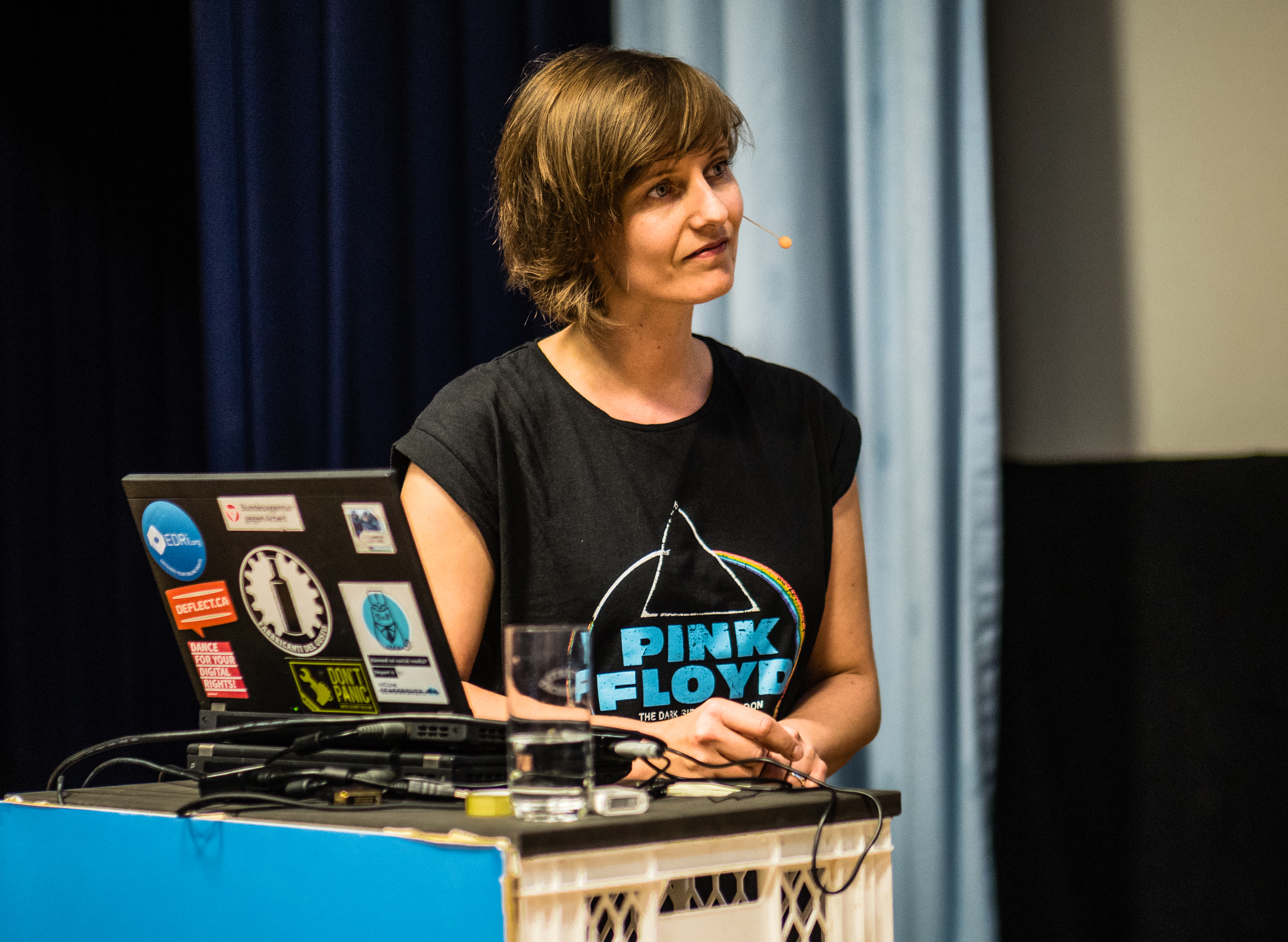 Kirsten Fiedler at "Das ist Netzpolitik!" 2017